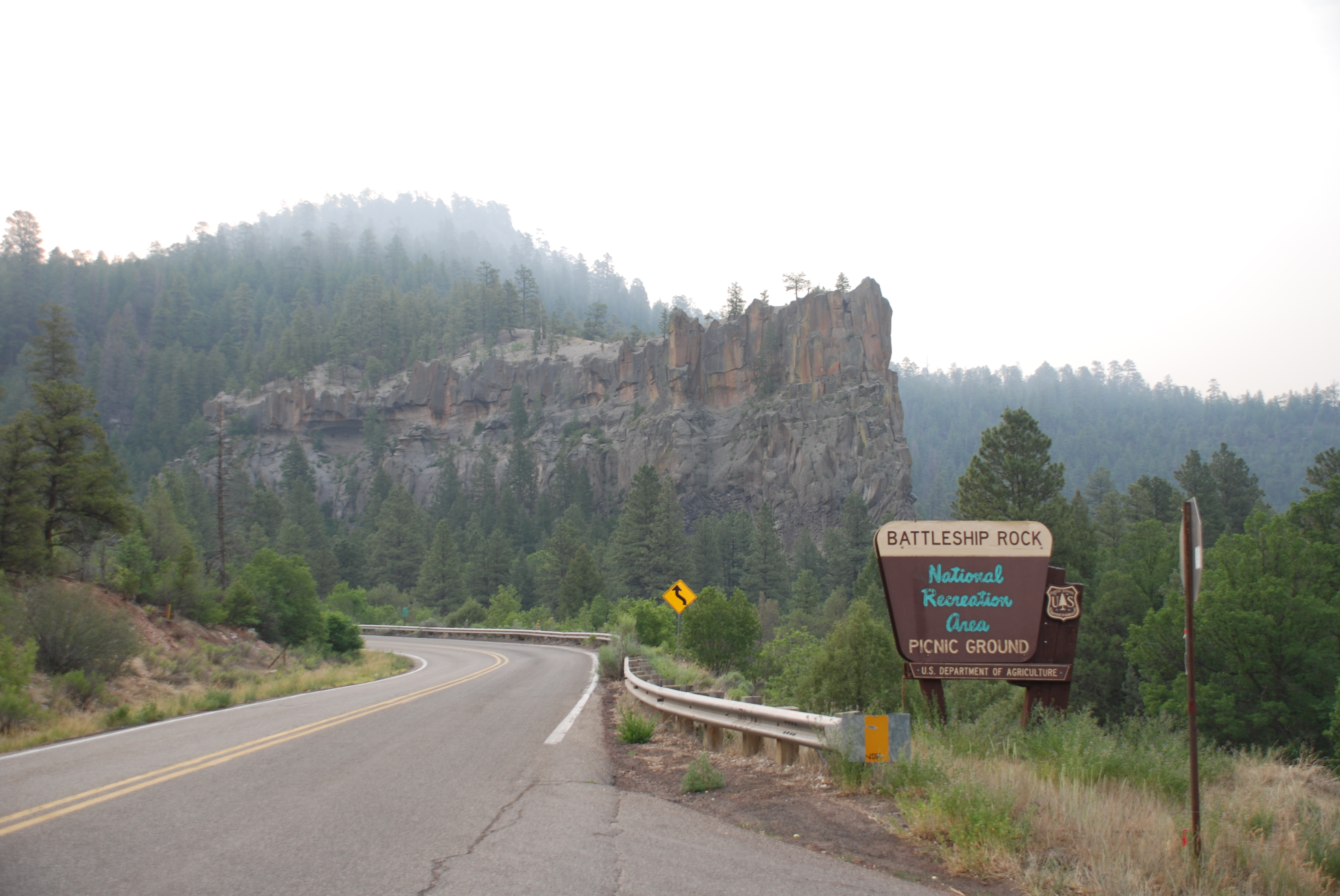 Credit: James Stone